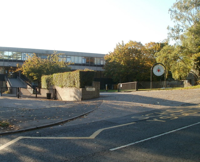 Entrance to St David's College, Cardiff